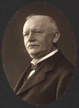 Julius Vilhelm Schultz (1851-1924), Danish sculptor